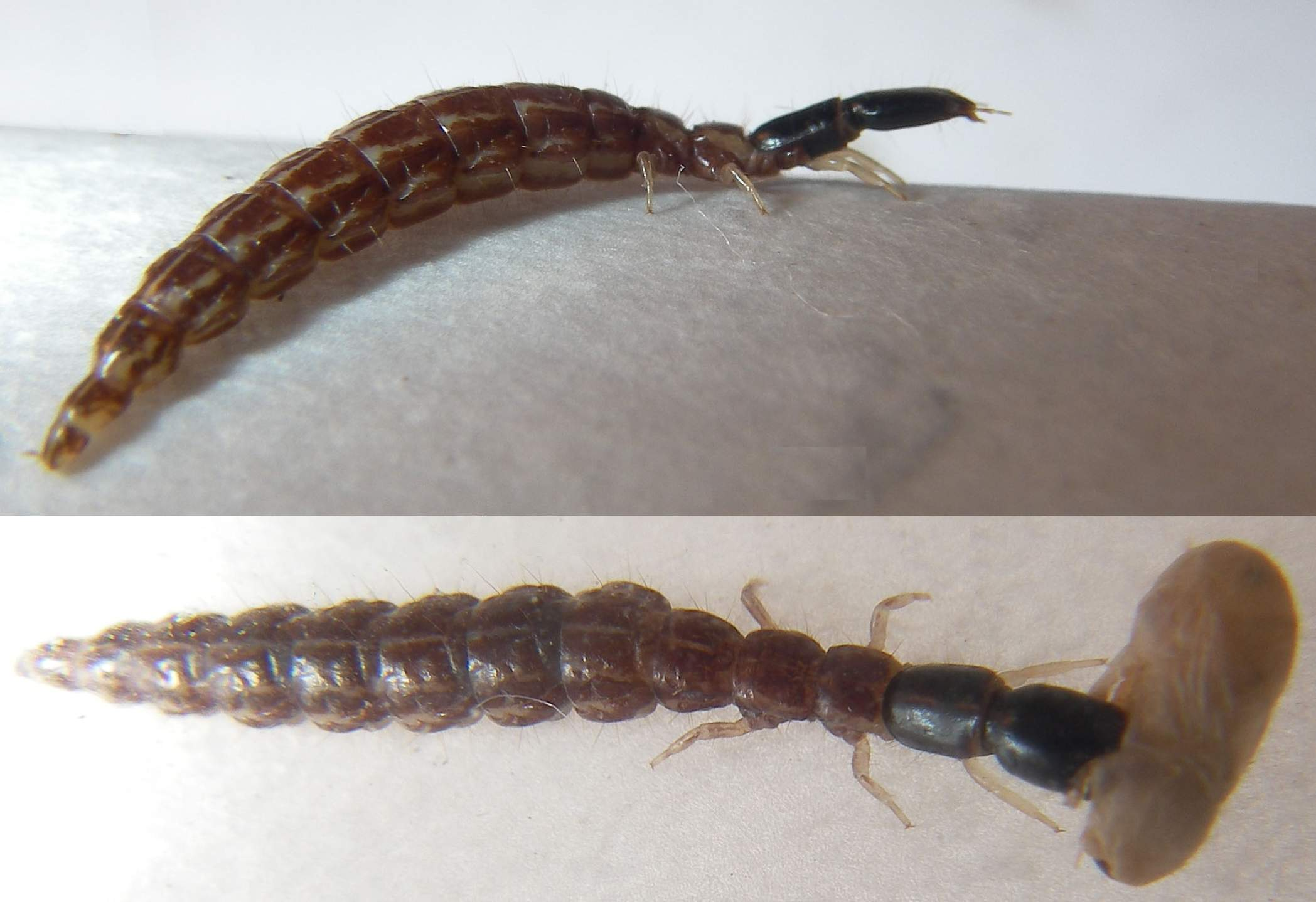 Larva of snakefly, Raphidia sp. (collected on dead pinetree in Russia, Tver' Province, near village Staroe)